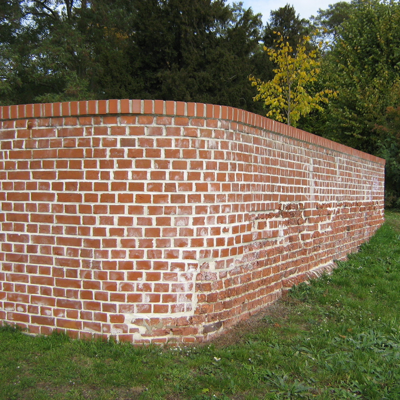 Part of the western bastion in the former castle garden in Schwedt